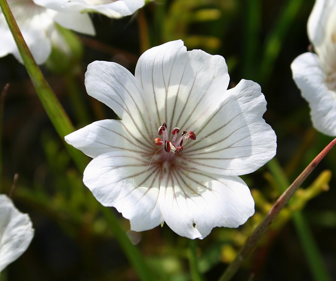 Limnanthes douglasii ssp. rosea found at Jepson Prairie in California.